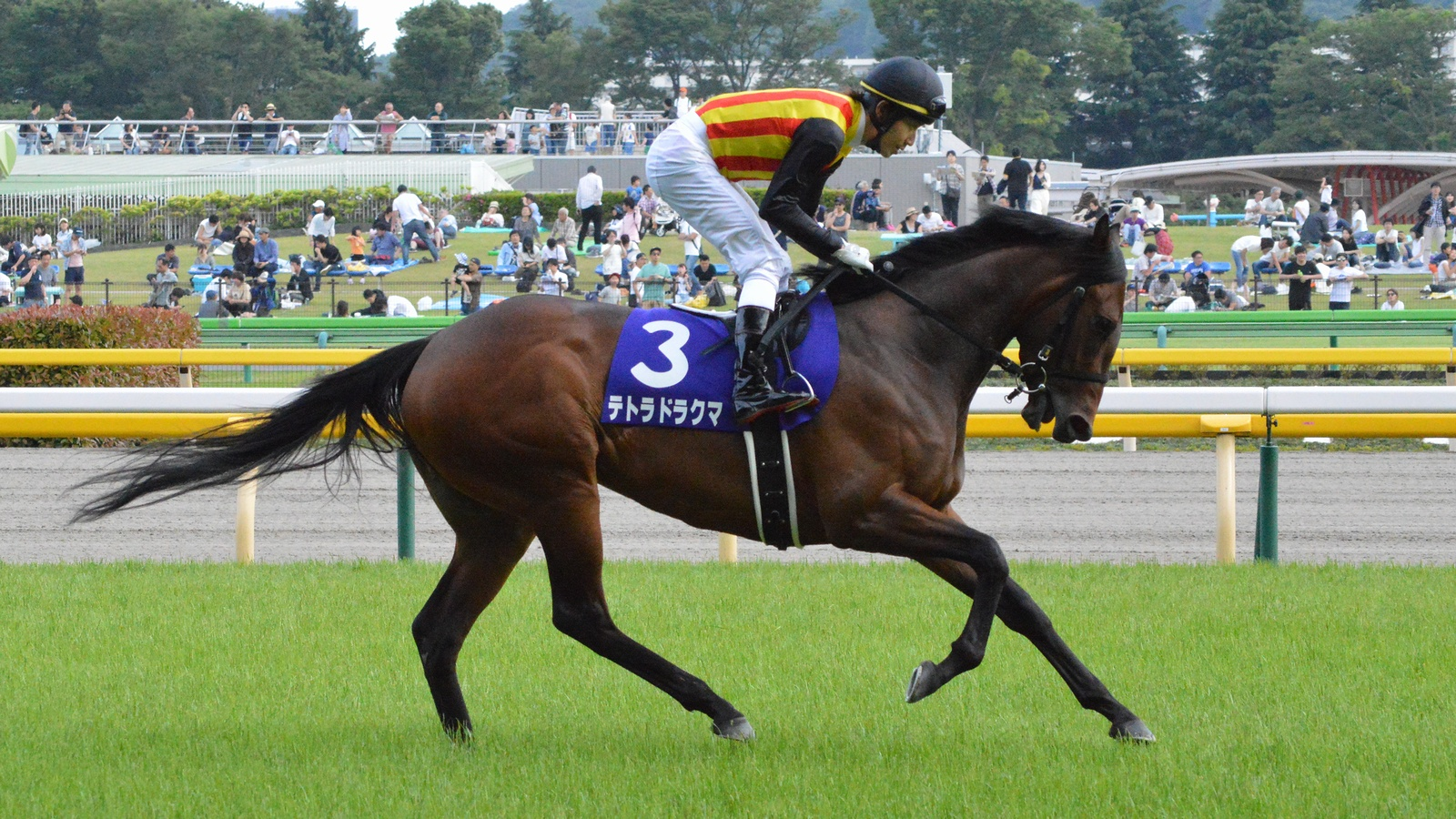 Japanese race horse Tetradrachm at Tokyo racecourse. Tokyo (JPN) 6 May 2018 NHK Mile Cup (Grade 1) (3yo Colts & Fillies) (Turf) 1m Firm RankHorse NameOddsAgeWgtTrainerJockey1stKeiai Nautique (JPN)118/10C39-0Osamu HirataYusuke Fujioka2ndGibeon (JPN)42/10C39-0Hideaki FujiwaraMirco Demuro3rd - 13th/omission14thTetradrachm (JPN)13/2F38-9Kazuo KonishiHironobu Tanabe